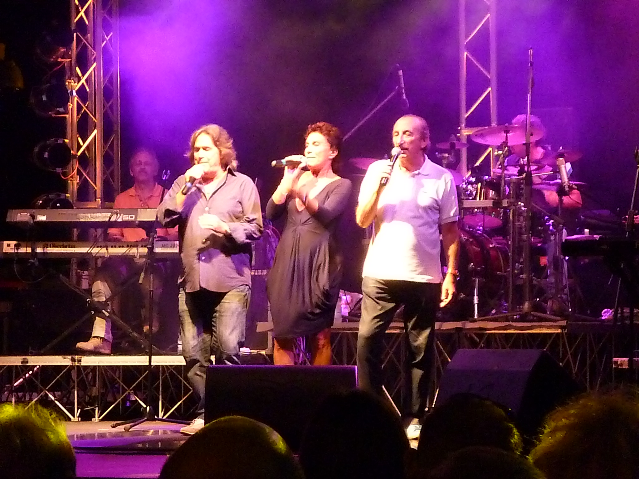 Ricchi e Poveri performing in Vibonati (SA), Italy